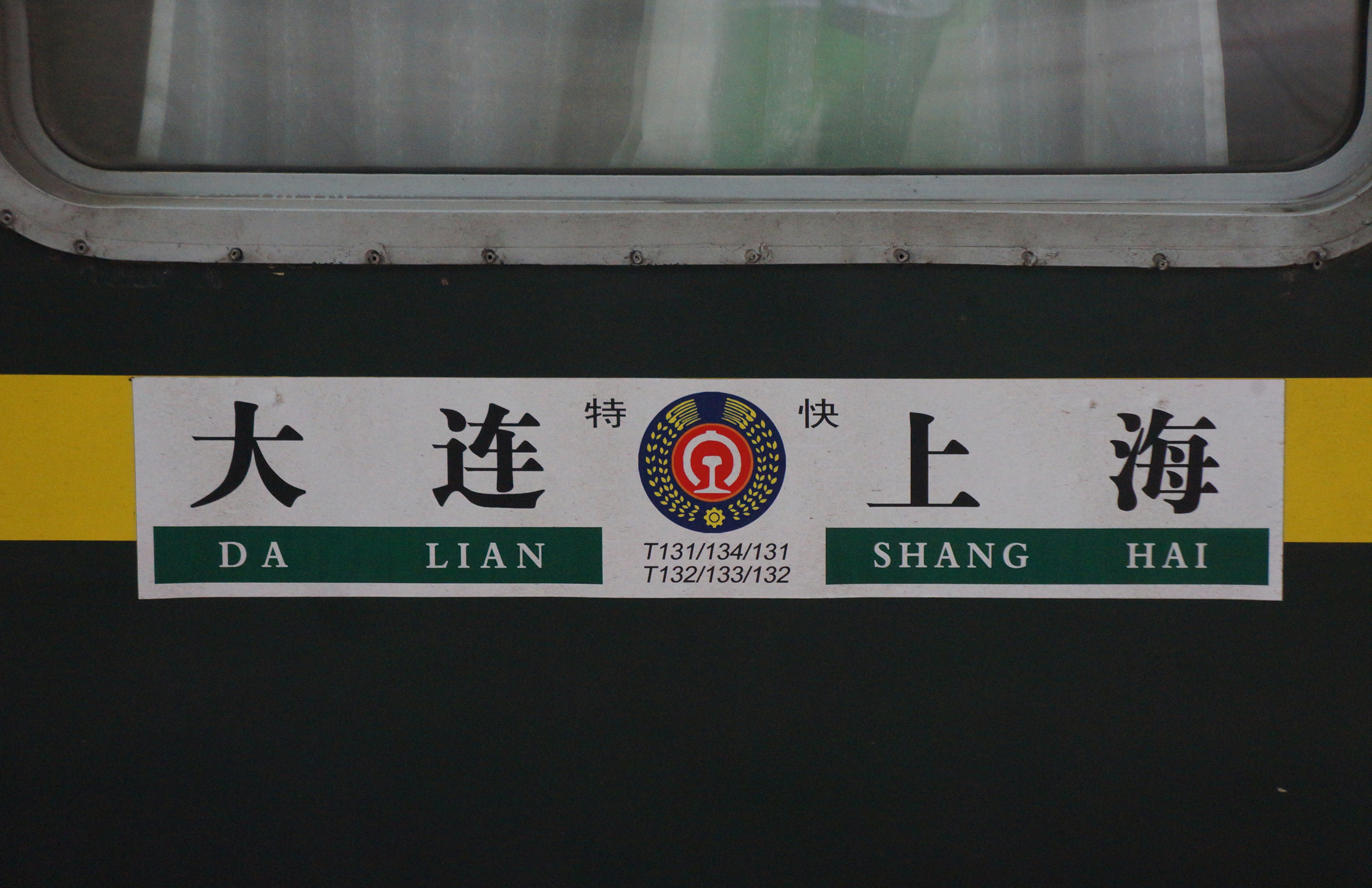 T131 2 3 4 infoboard in 201705. Taken at SHA.